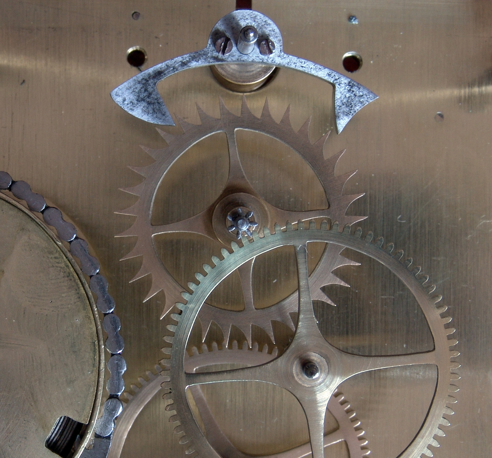 The anchor and escape wheel of a late nineteenth century clock (the plate that normally holds the other end of the pinions has been removed for clarity). The crutch and fork attached to the anchor shaft that drives the pendulum, and the pendulum itself, are mounted behind the back plate of the movement.